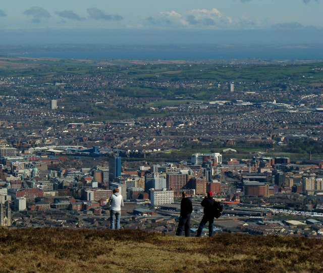 Belfast from Black Mountain The view east from Black Mountain offers an excellent view over Belfast. Beyond the three people can be seen the high rise buildings of central Belfast. Beyond that are the terraces of east Belfast with Dundonald behind. In the far distance you can just see the town of Comber with Strangford Lough and the Ards Peninsula in the far distance.